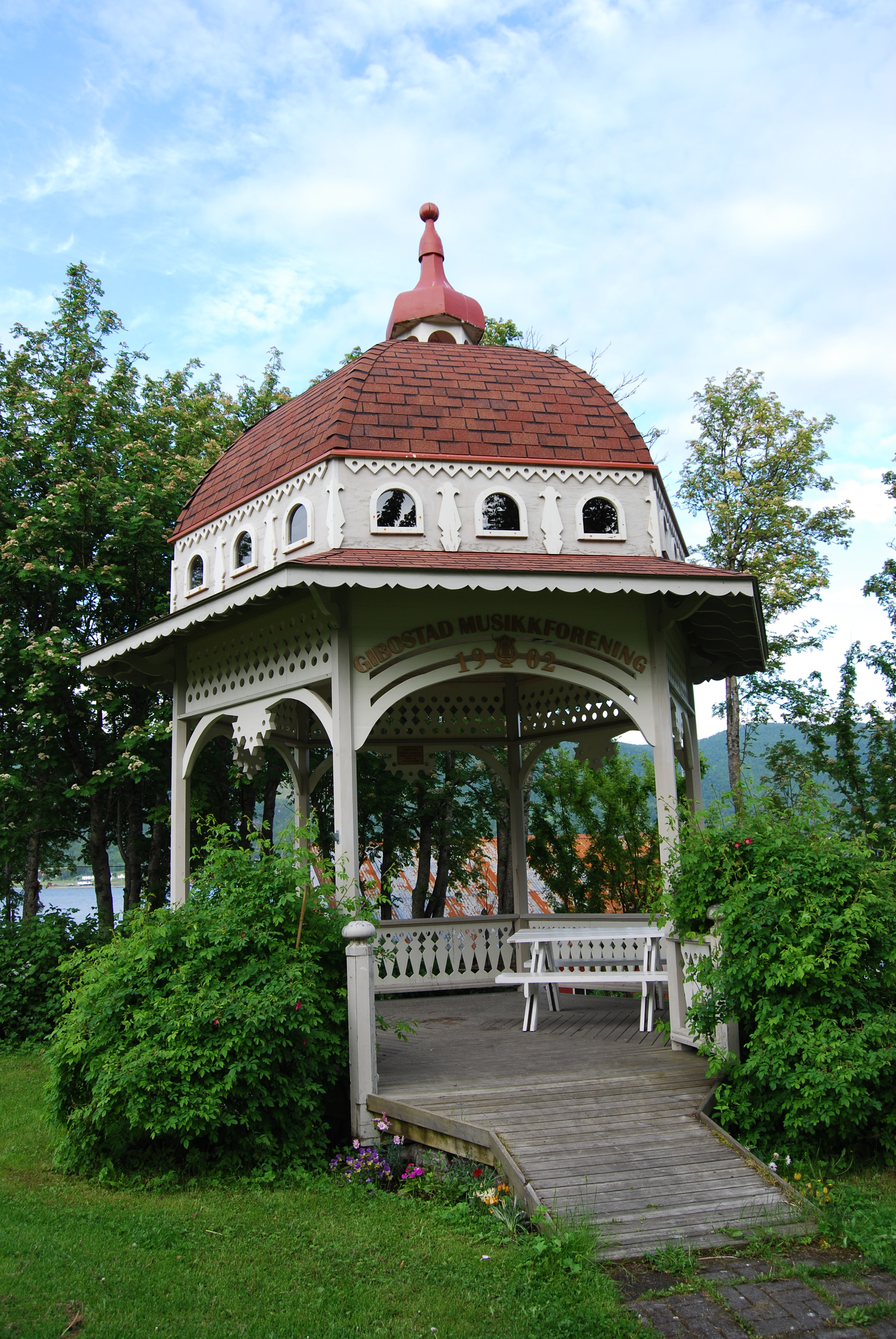 Gibostad village on Senja, Norway.